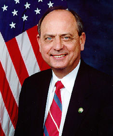 Doc Hastings, member of the United States House of Representatives.